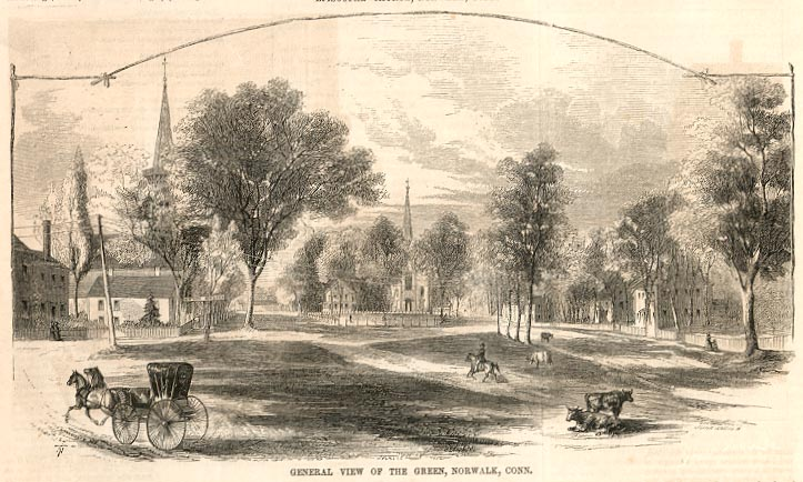 Picture caption: "General view of the Green, Norwalk, Conn" published in 1855 Description: "Published in Ballou's Pictorial in 1855. [...] The [...] engraving pictured [...] measures approx. 5.50 by 9.50 inches."